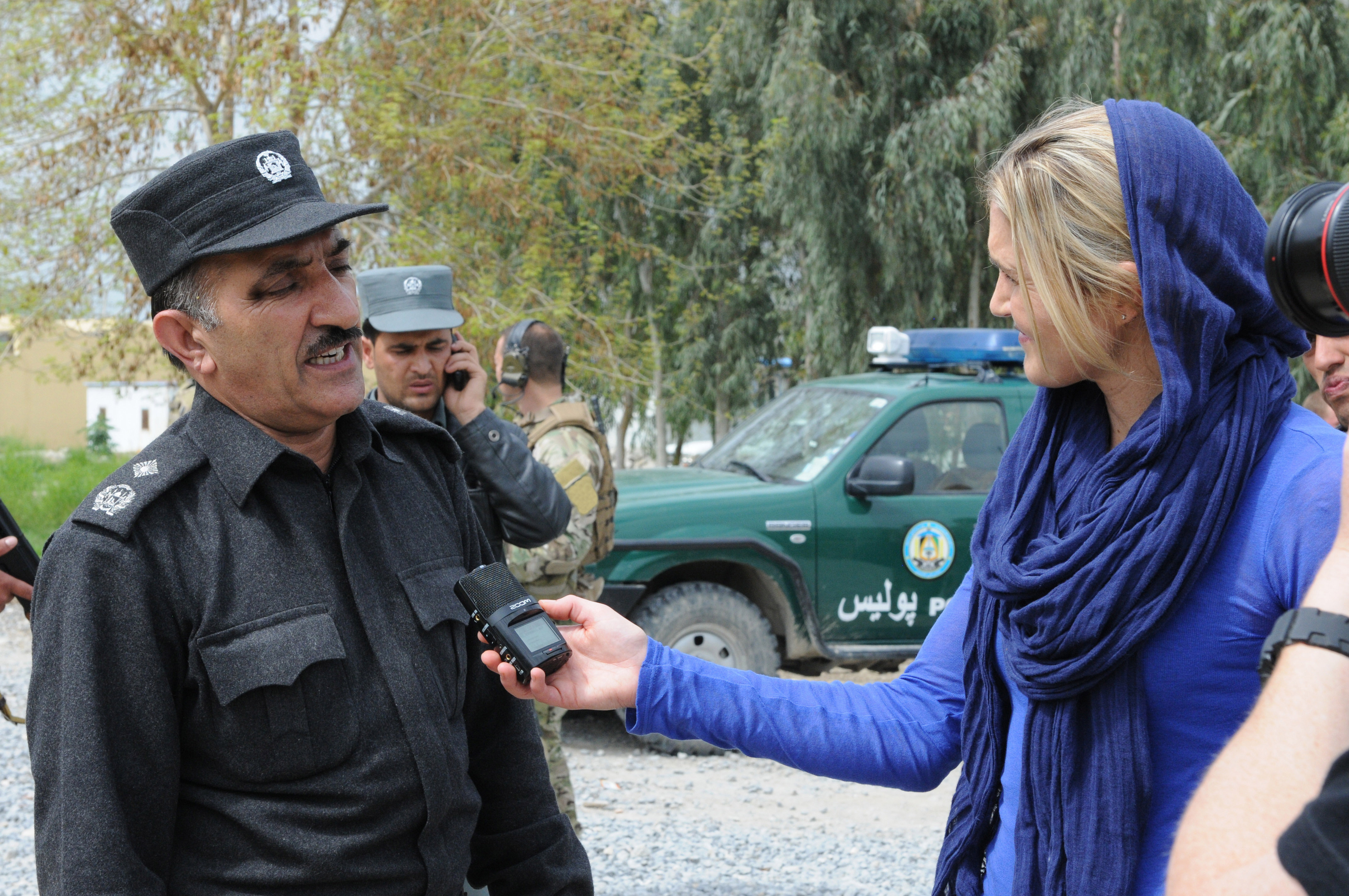 CNN International correspondent Anna Coren interviews Afghan Brig. Gen. Ali Shah Ahmadzai, head of the Ministry of the Interior Afghan Local Police (ALP) Department, after an ALP validation shura in Shinwar district, Nangarhar province, March 27. Afghan Local Police complement counterinsurgency efforts by assisting and supporting areas that have limited Afghan National Security Force presence to enable conditions for improved security, governance and development. (U.S. Army photo by Sgt. Kyle Wagoner)